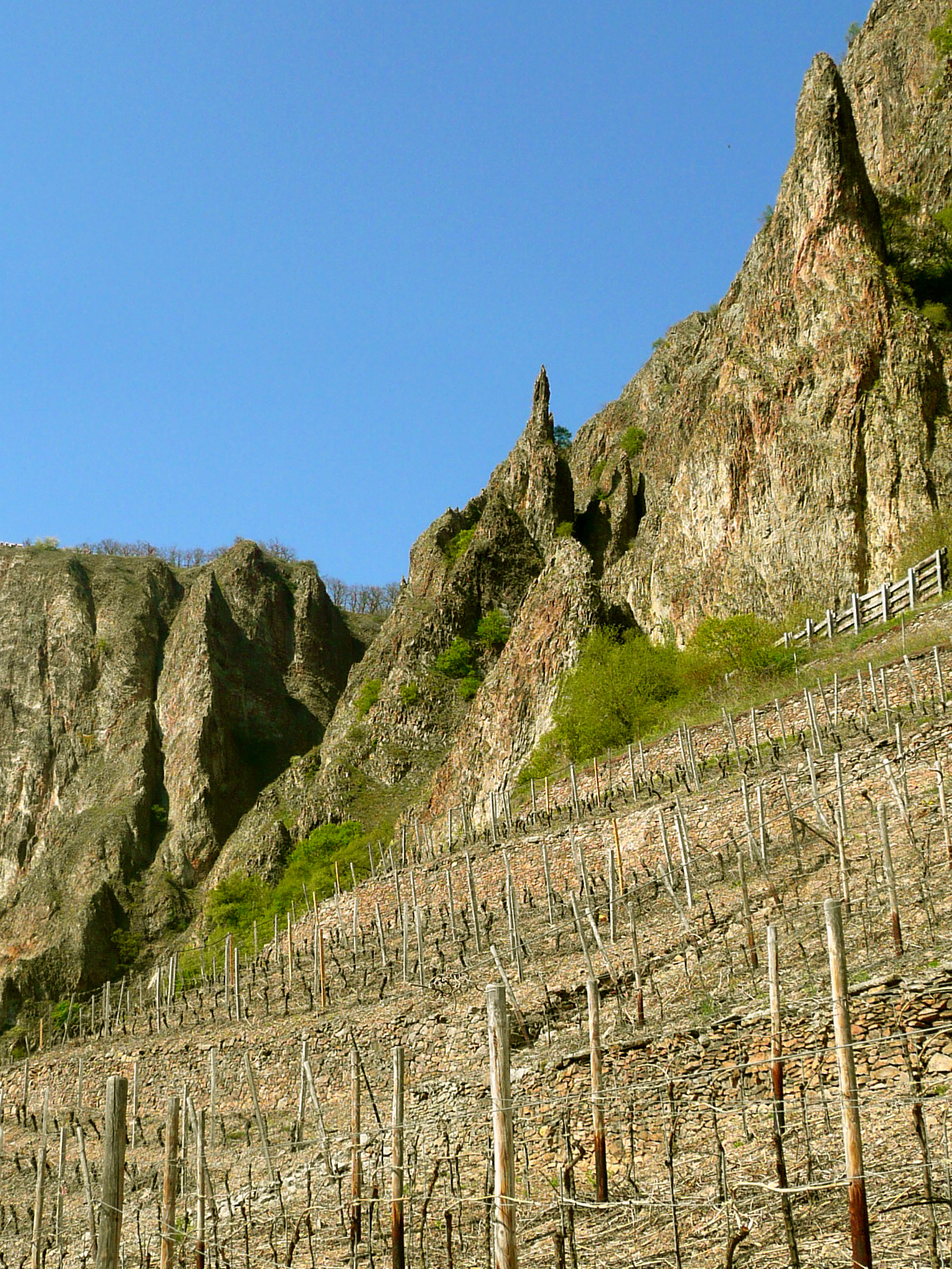 The Rotenfels porphyry massif and vineyards at NORHEIM above the NAHE river, near Bad Münster am Stein-Ebernburg (Palatinate).